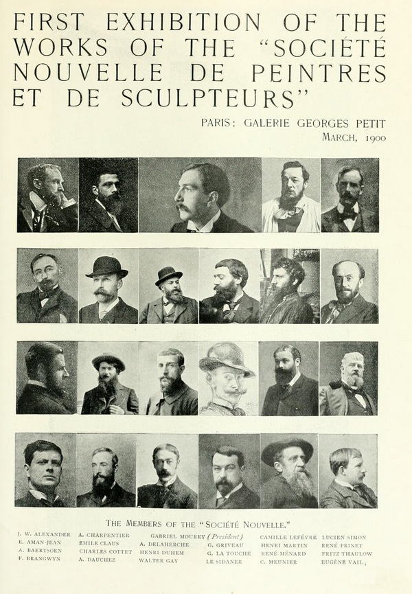 Advertisement published in The Studio, issue 84, March 1900 about the Société nouvelle de peintres et de sculpteurs, first exhibition in Galerie Georges Petit (Paris). Artists pictured, from left to right : John White Alexander, Alexandre Charpentier, Gabriel Mourey [President], Camille Lefevre, Lucien Simon, Edmond Aman-Jean, Emile Claus, Auguste Delaherche, G. Griveau, Henri Martin, René-Xavier Prinet, Albert Baertsoen, Charles Cottet, Henri Duhem, Gaston de La Touche, René Ménard, Frits Thaulow, Frank Brangwyn, André Dauchez, Walter Gay, Henri Le Sidaner, Constantin Meunier, Eugène Lawrence Vail.